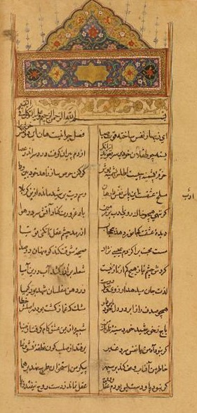 A page of Divan by Masih Kashani - 1614 more details in Persian)